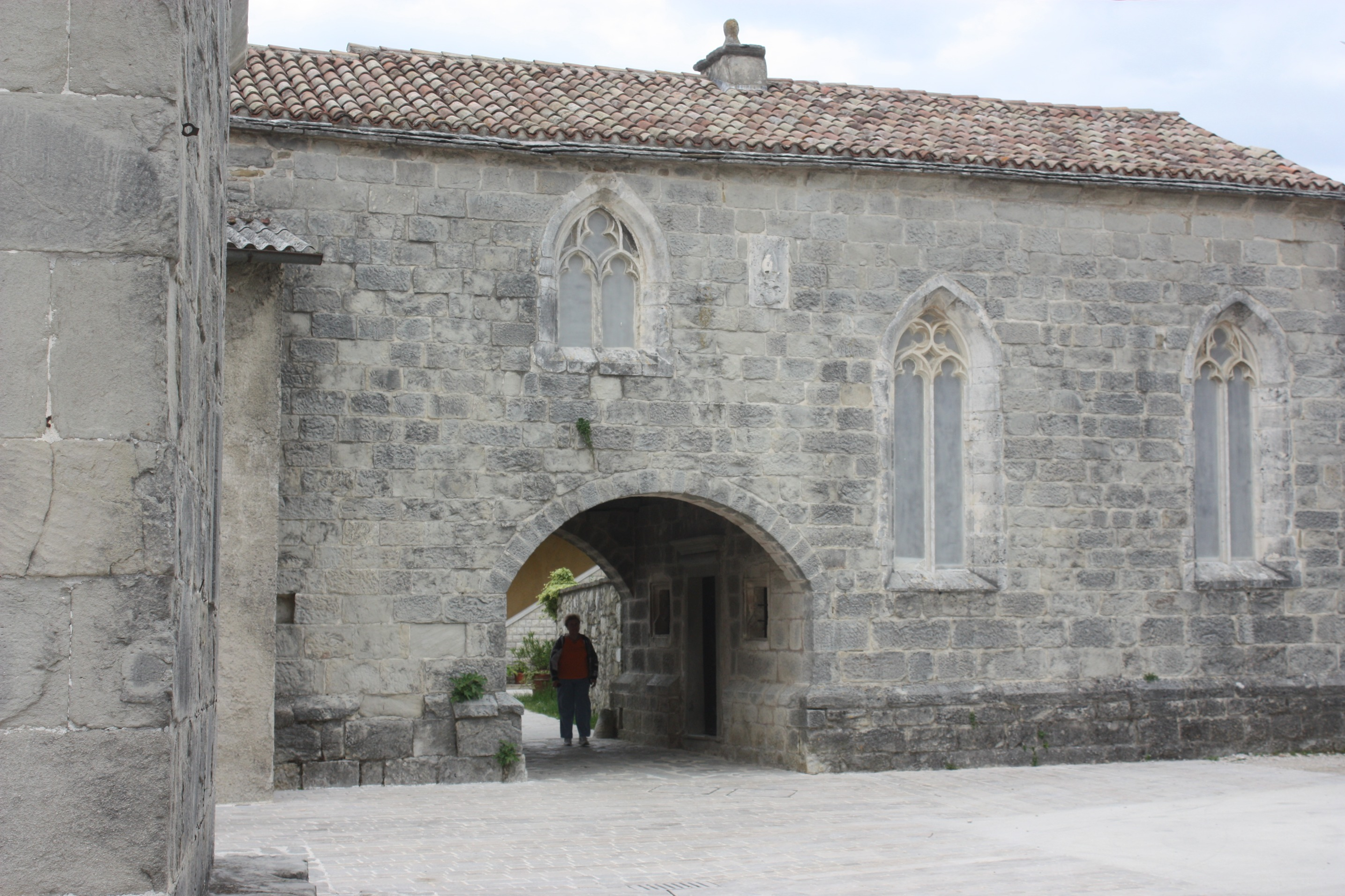 Gračišće, the Salomon palace (chapel of St. Anthony)